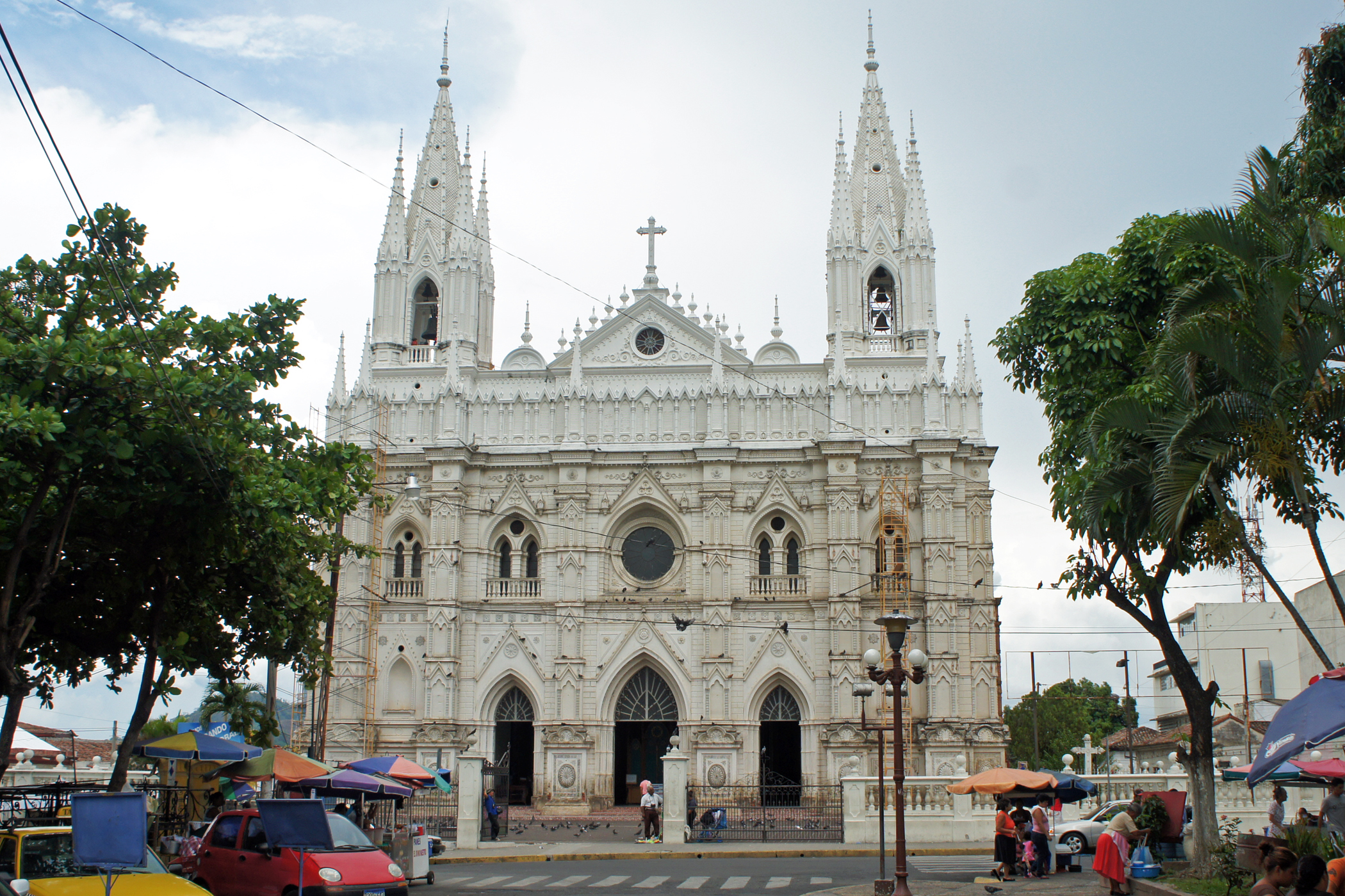 Santa Ana Cathedral, Santa Ana, El Salvador